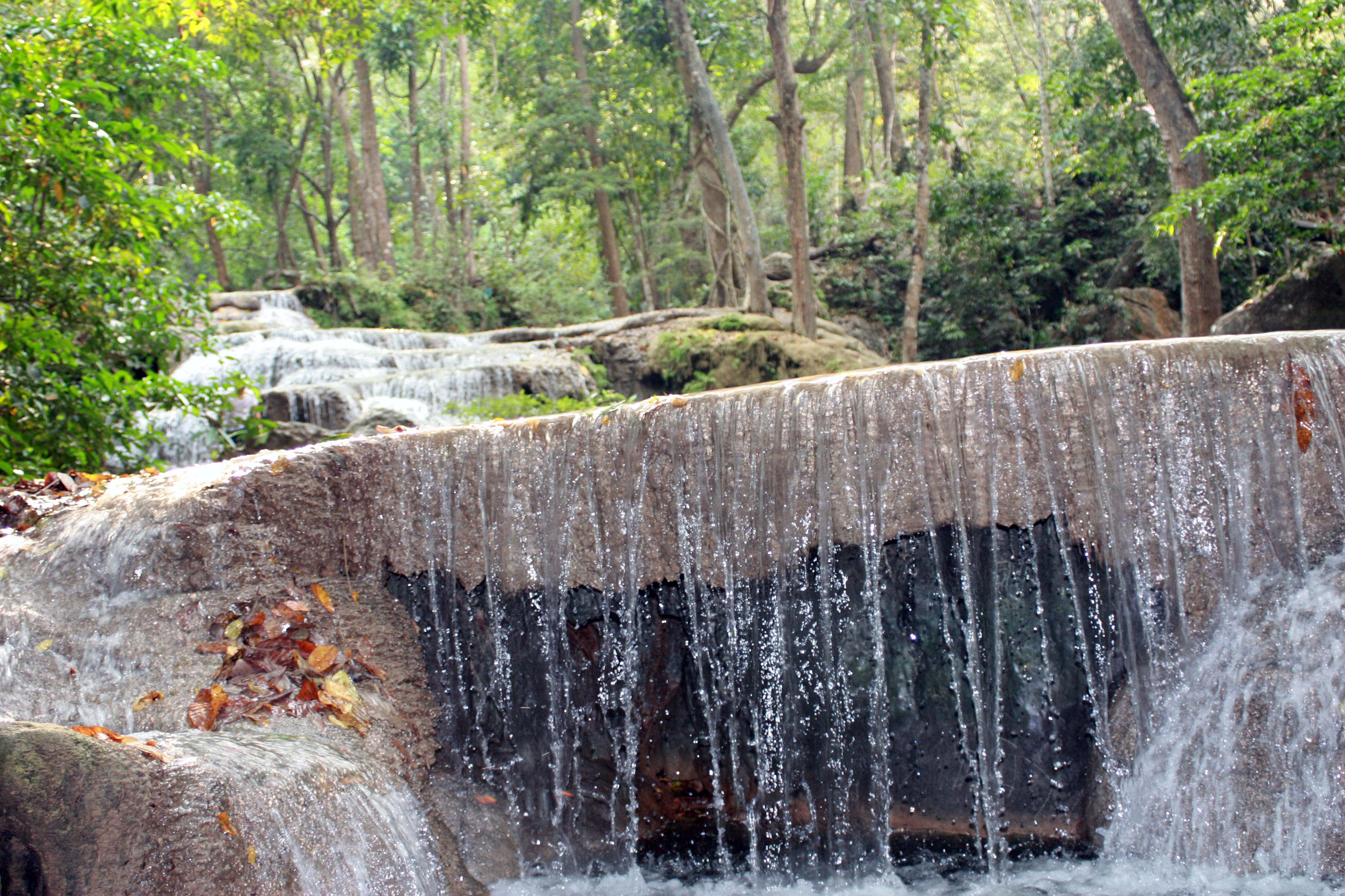 Level 1 of Erawan Waterfall, Erawan National Park, Kanchanaburi Province, Thailand.